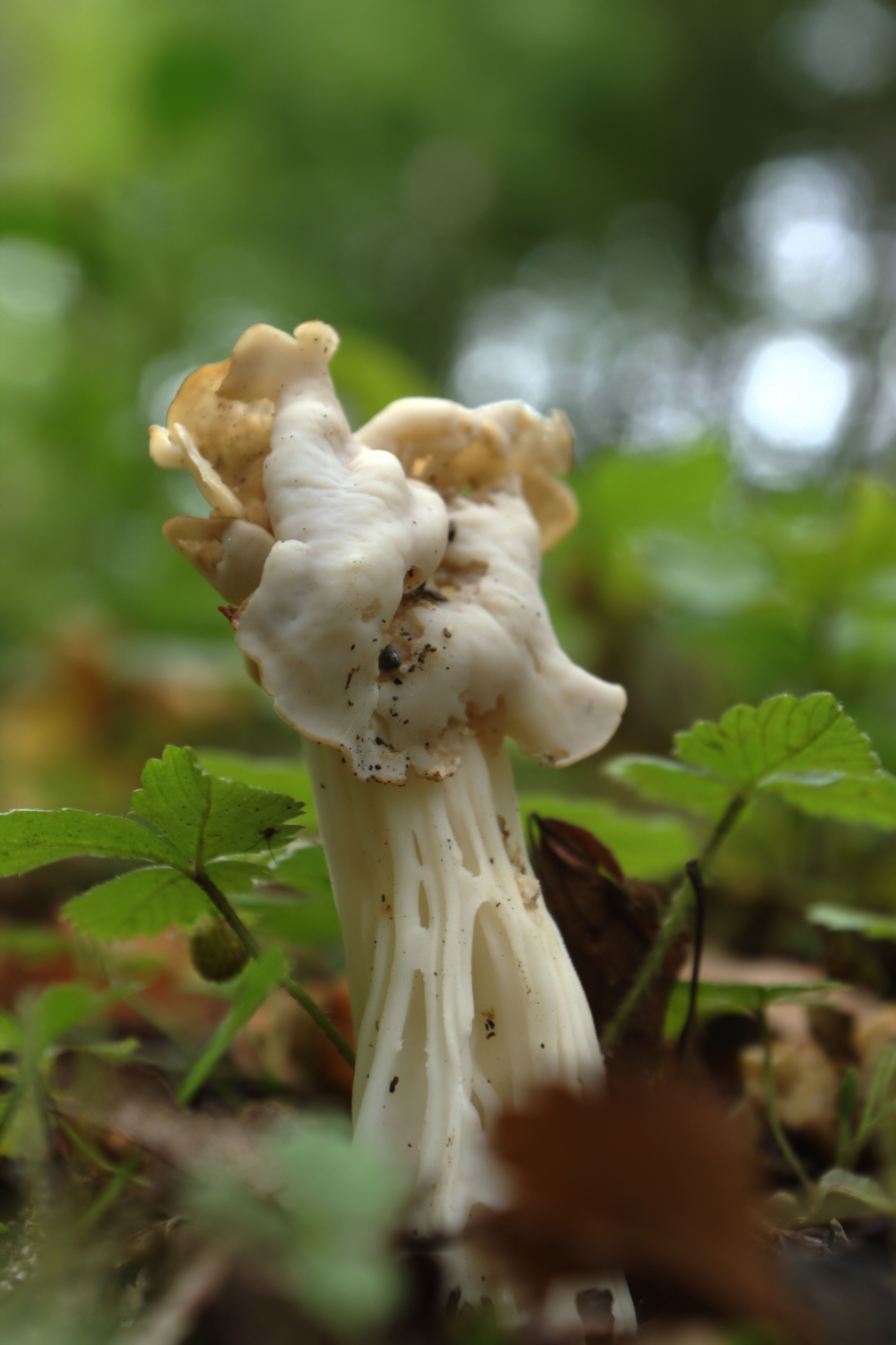 A mushroom (or a torso of a mushroom near Na Březové hill, Chrustenice, Central Bohemian Region, CZ